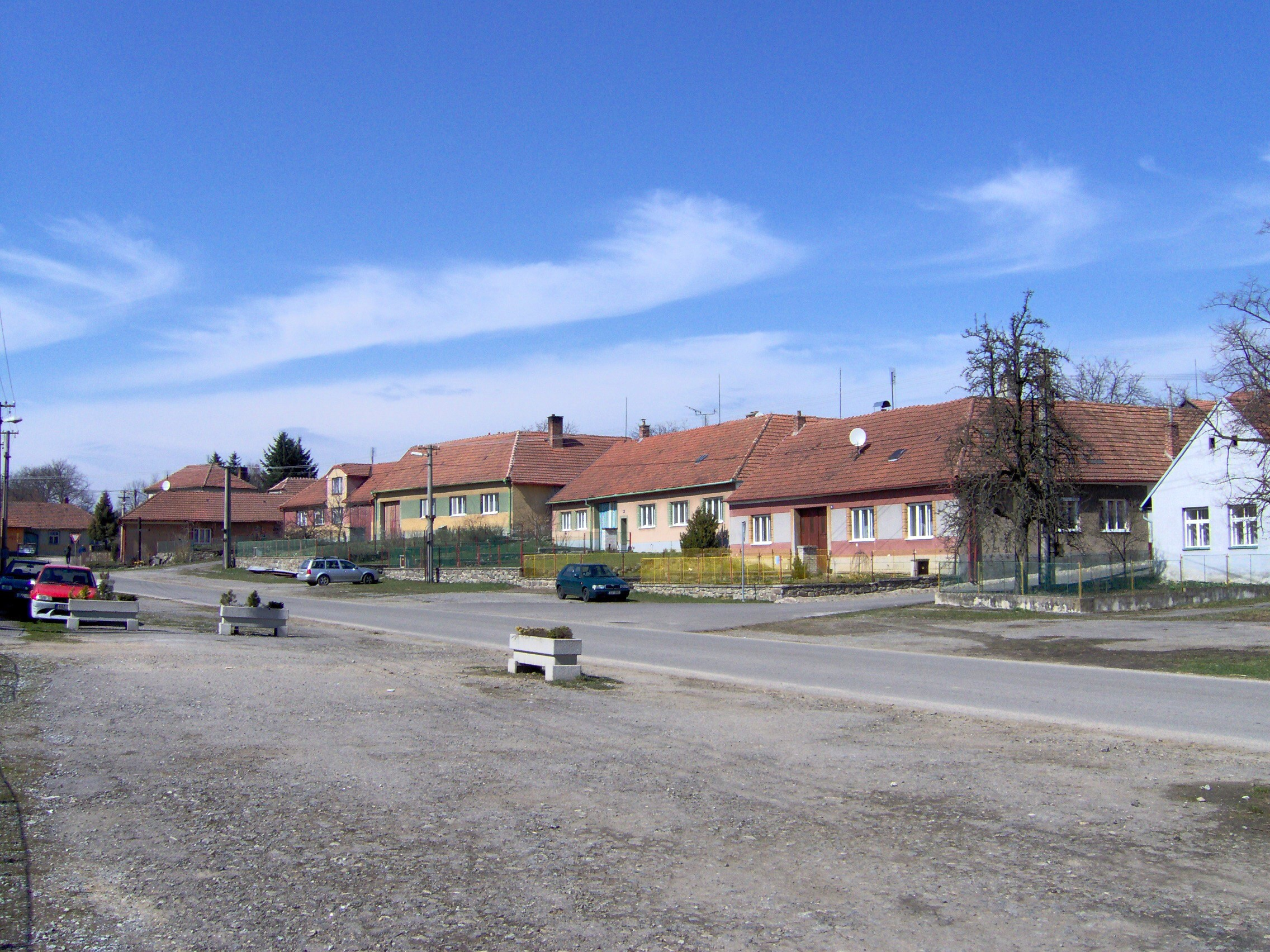 Březí village, Žďár nad Sázavou District, Czech Republic